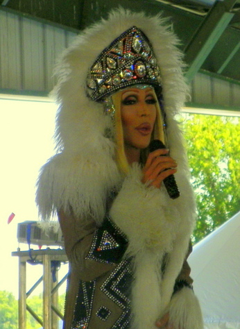 Chad Michaels at the Austin Pride Festival